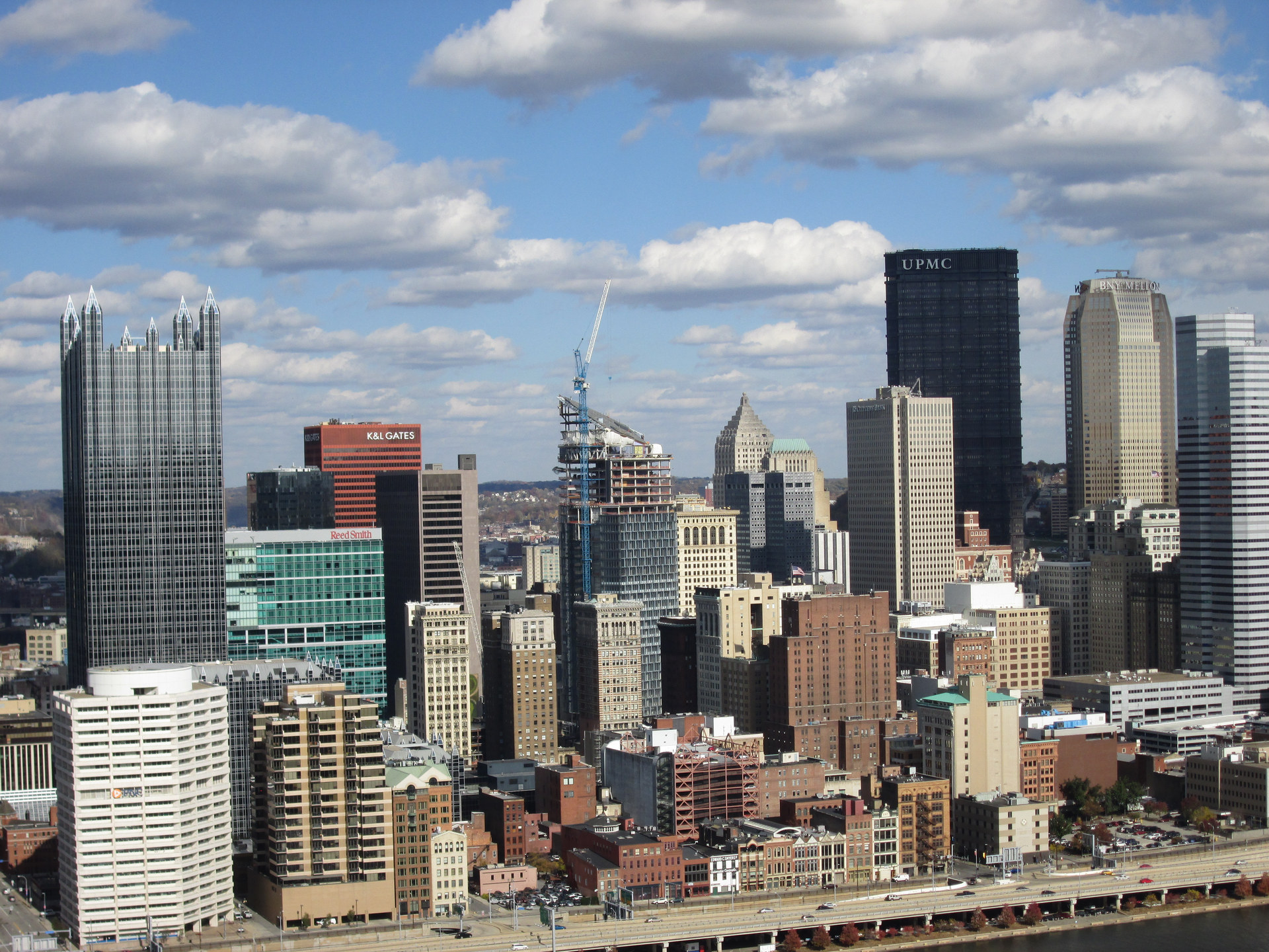 Shot of Central Business District (Pittsburgh), from near Shiloh Street, on Mt. Washington.